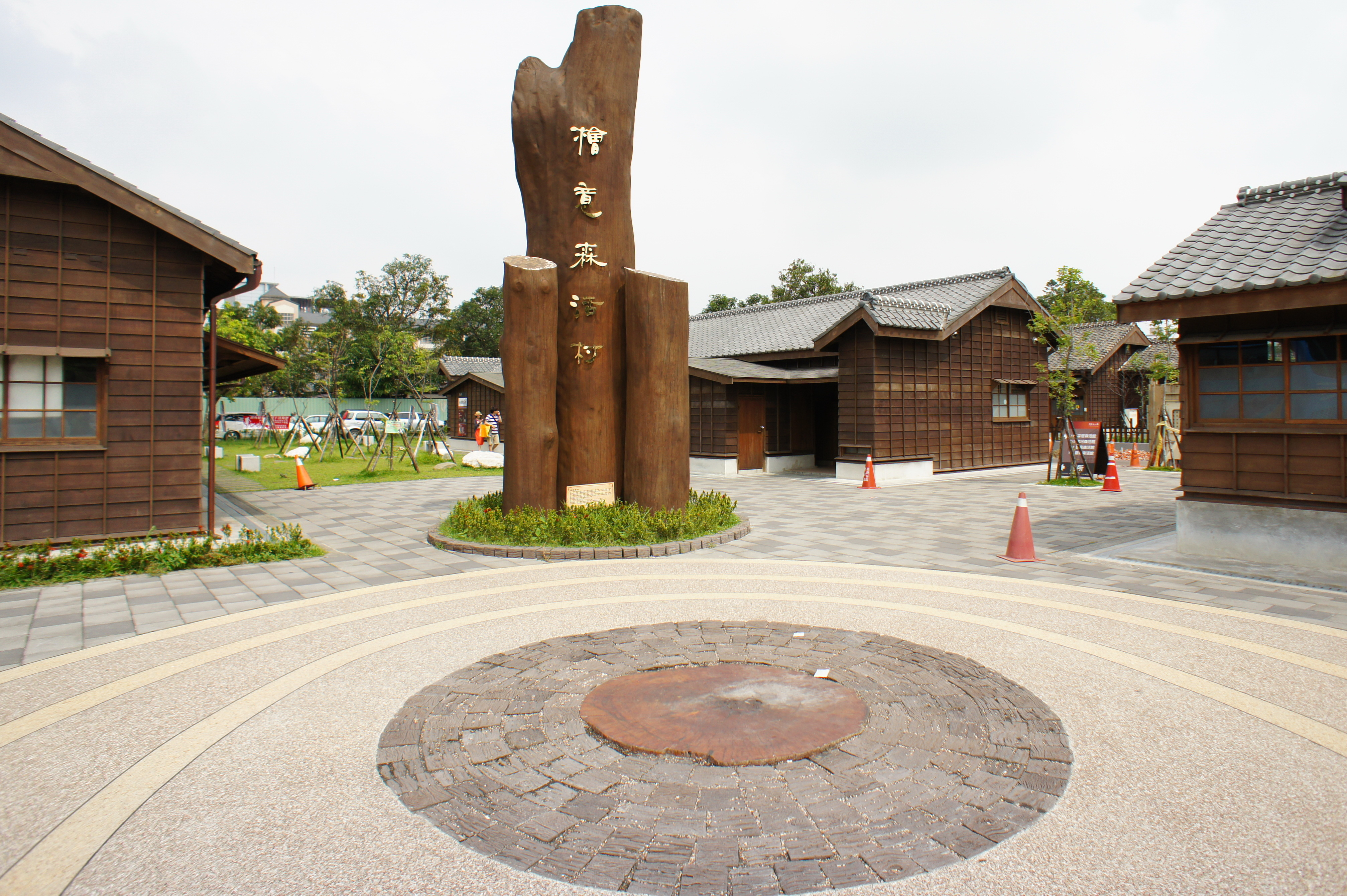 Hinoki Village, Chiayi City.